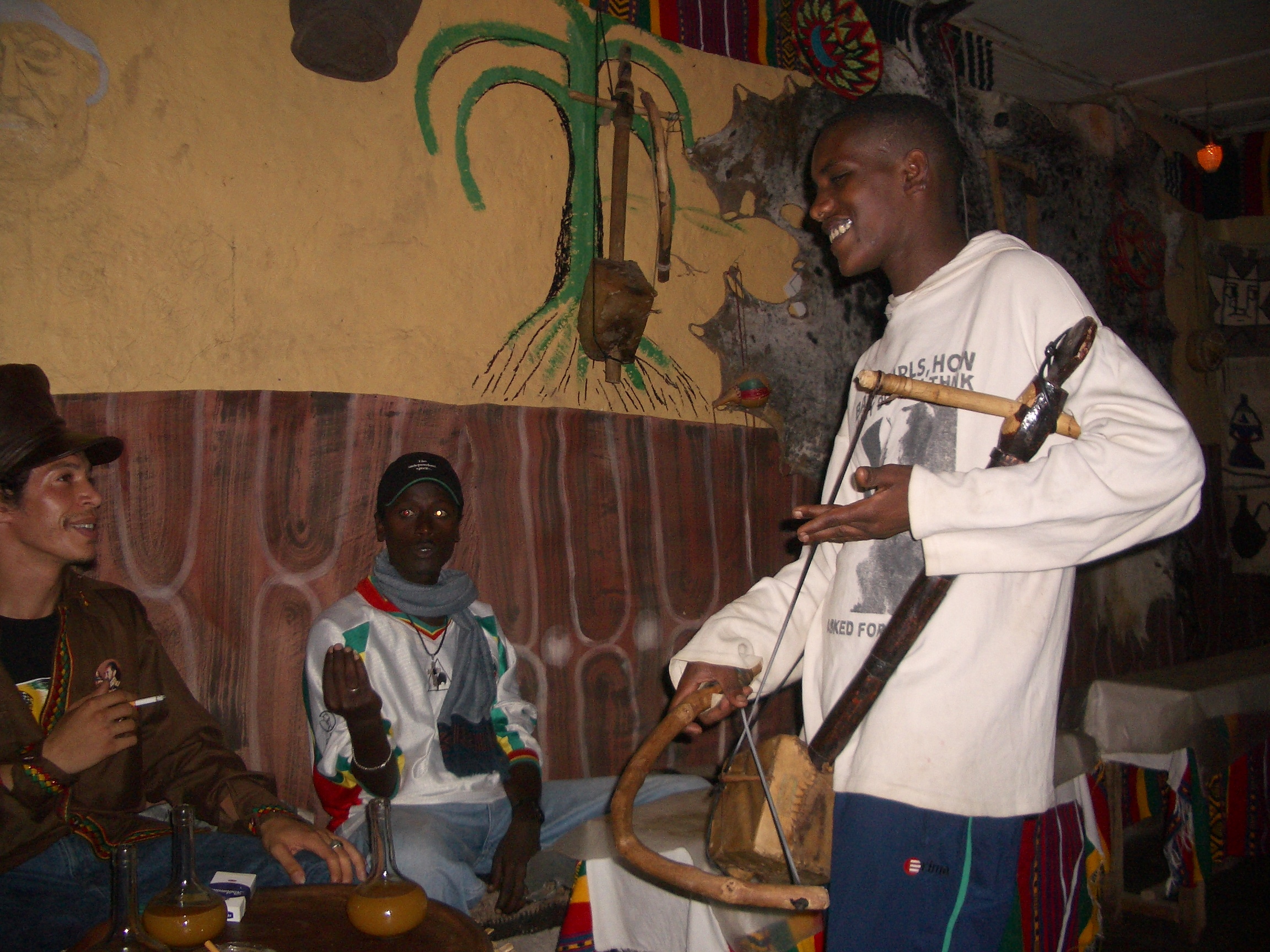 Original caption states "We hit the next town, and immediately went out to the local tej bet (honey wine bar) to hear an azmari (minstrel/one-man improv act. We didn't understand anything he said, but he was pretty cool anyway."